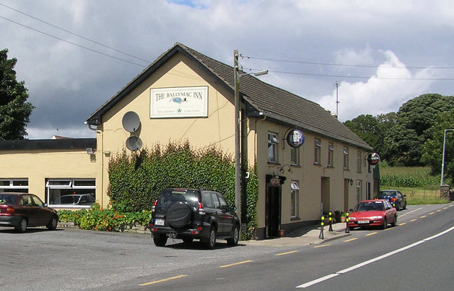 The Ballymac Inn, Ballymagovern, Newtowngore Has a lake opposite